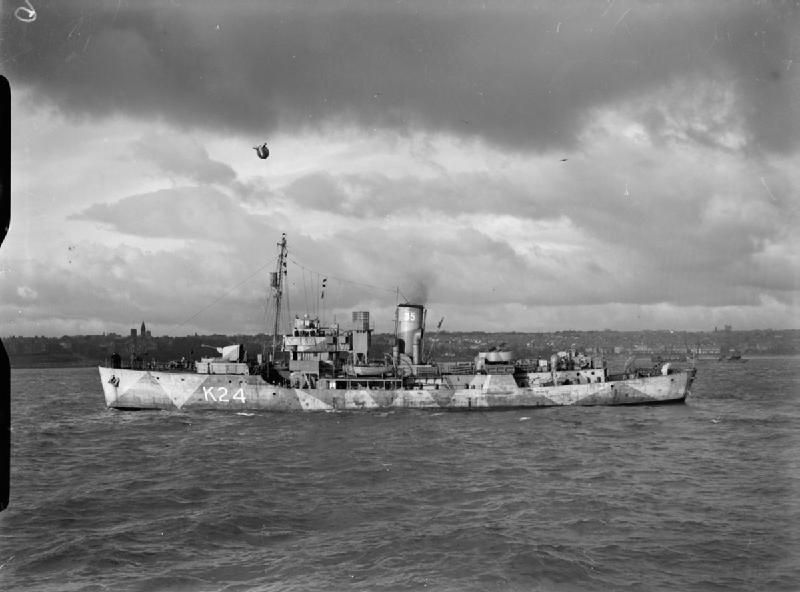 HMS Hibiscus Underway.